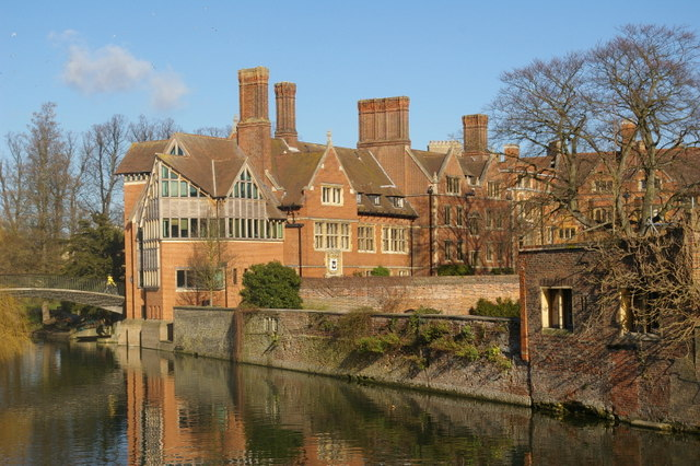 Trinity Hall Library The Jerwood Library at Trinity Hall was opened in 1999, built as an addition to an early 20th century set of staircases.